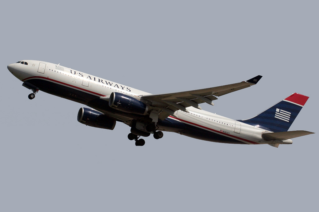 Departure runway 25L of Barcelona Airport